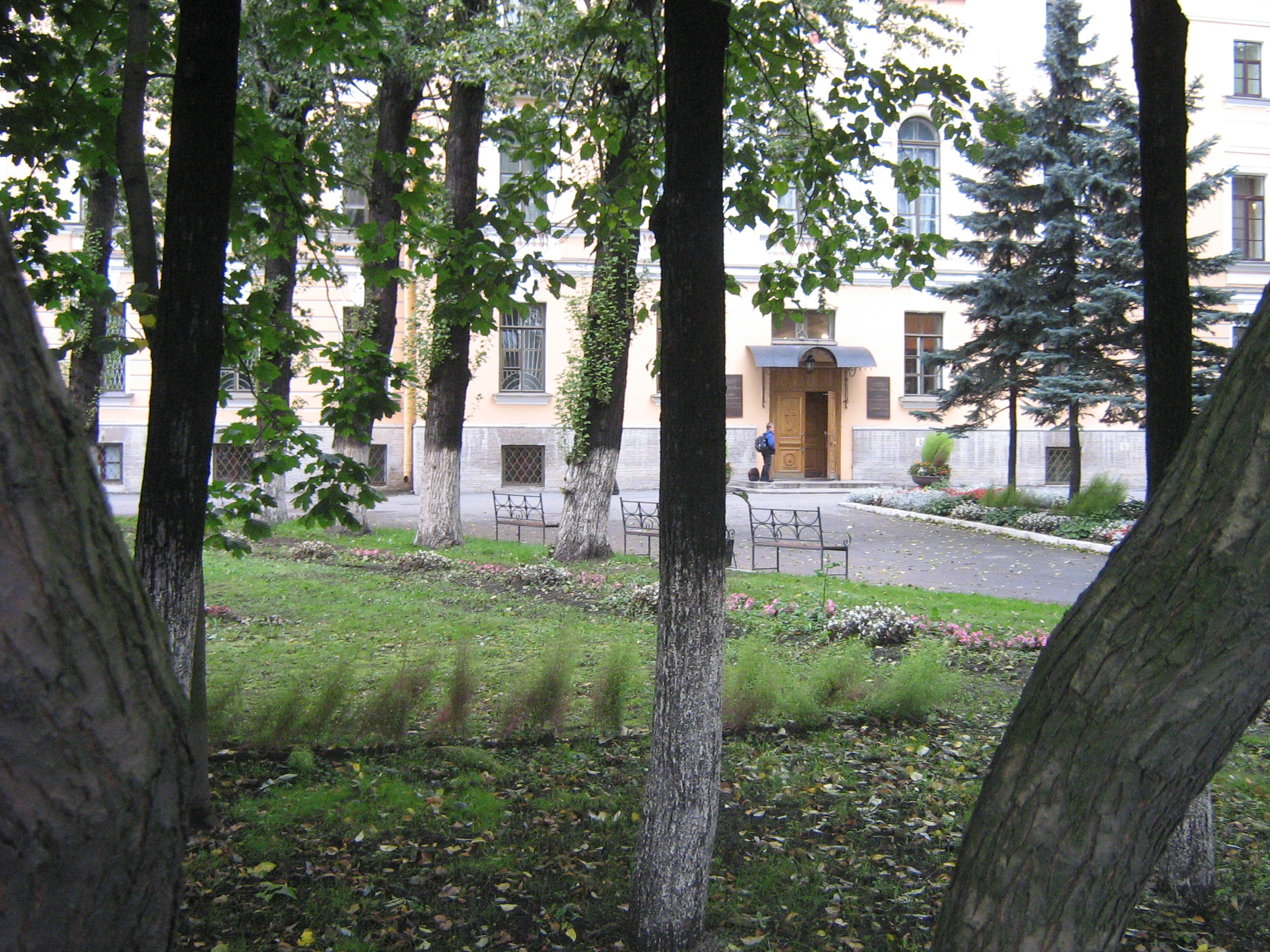 Saint Petersburg (Russia), Alexander Nevsky Lavra, Saint Petersburg Theological Academy.